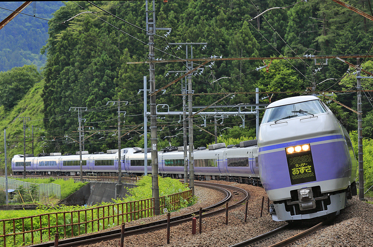 A JR East E351 series EMU on a Super Azusa limited express service